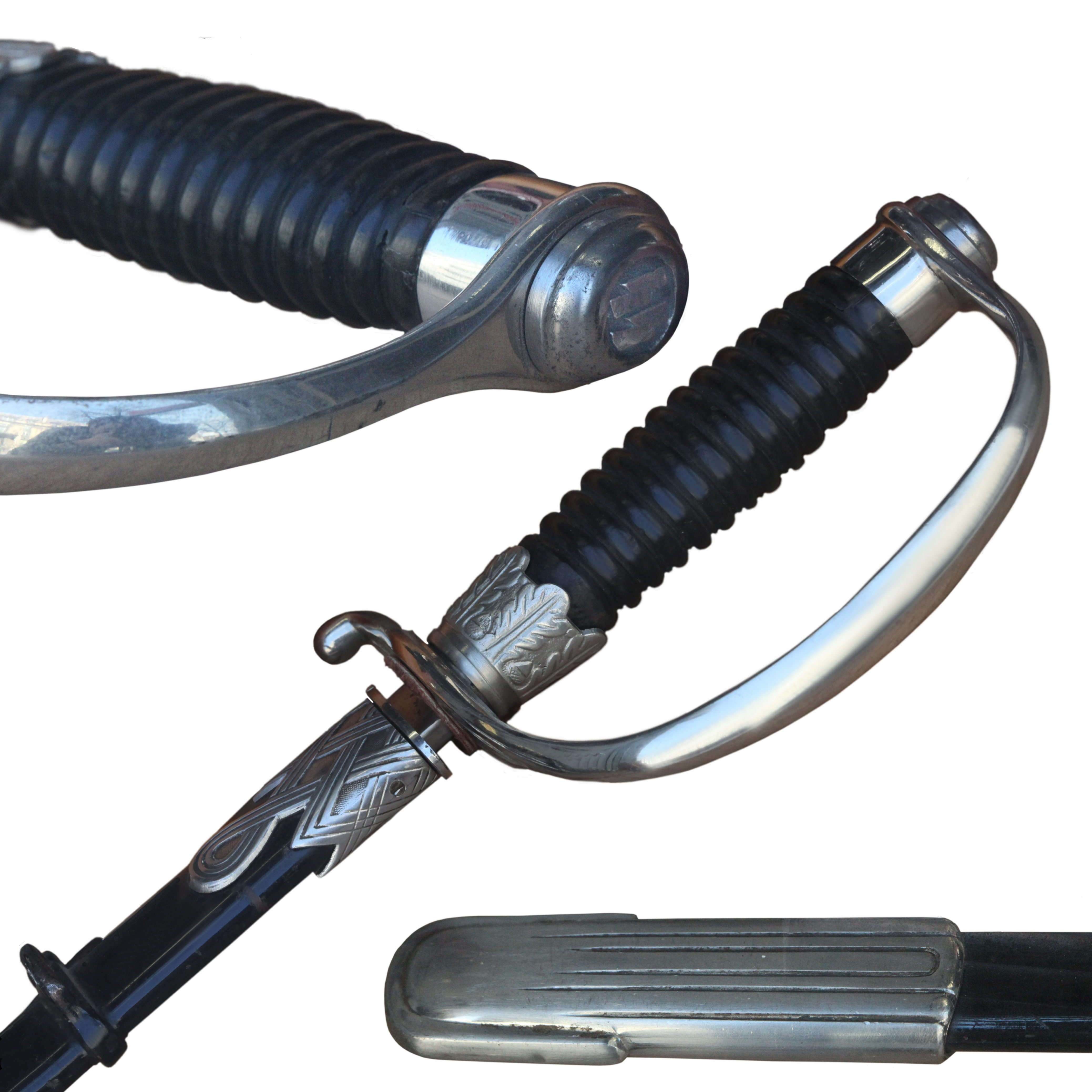 Weapons of honour of t he Third Reich until 1945, here “Honorary-dagger of the SS” with handle and scabbard.